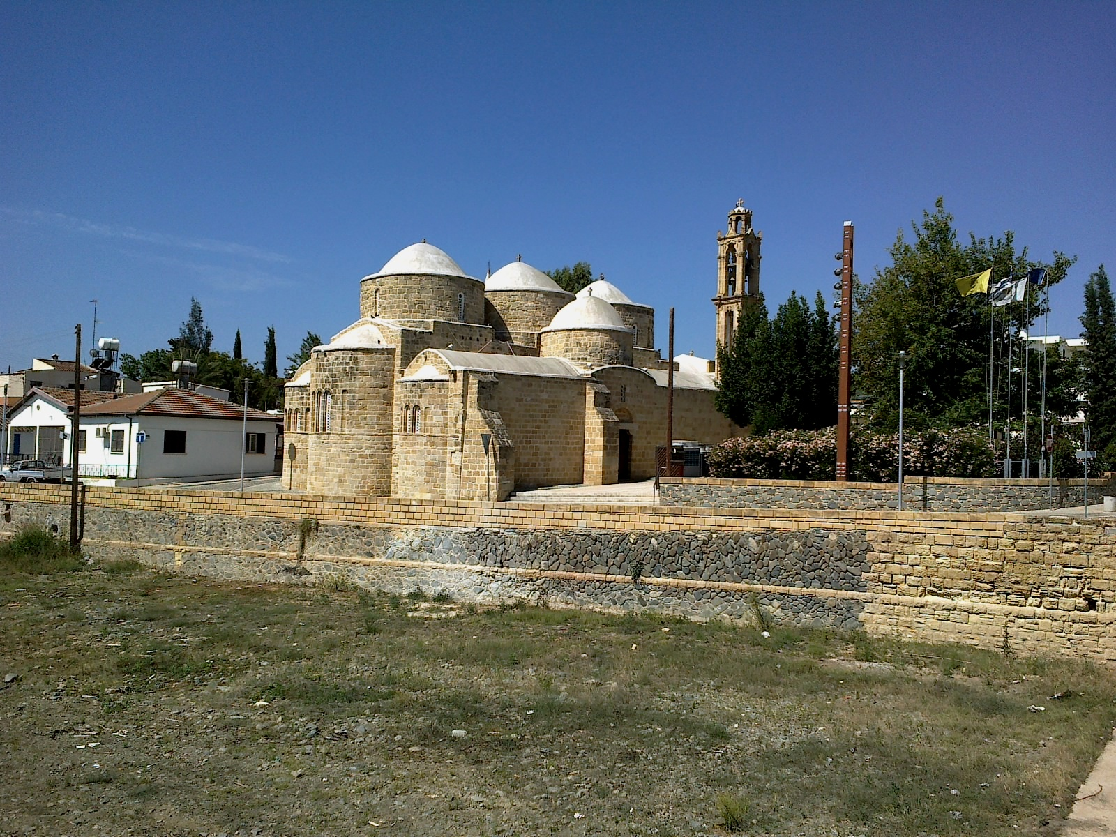 Chypre Peristerona Saints Barnabe Hilarion